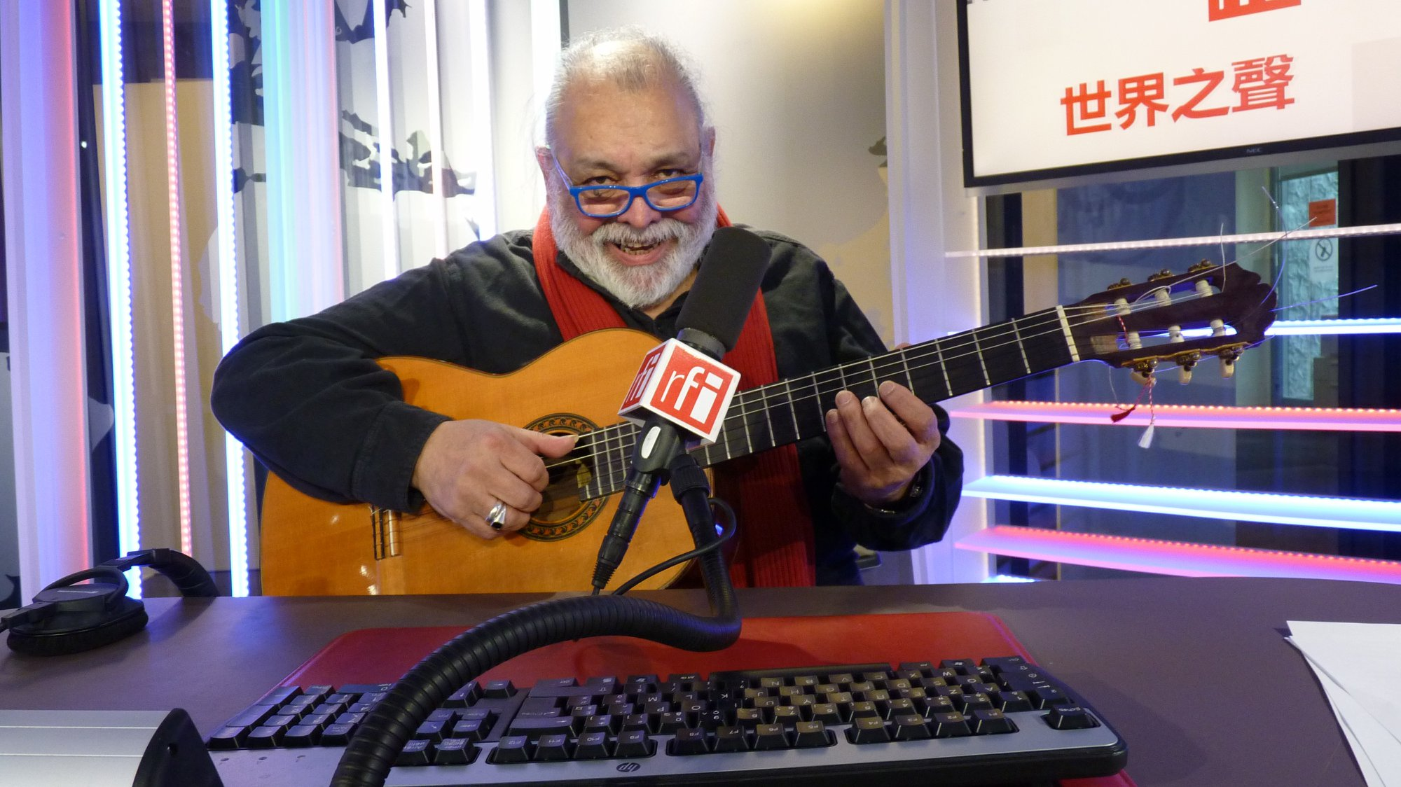 Hugo Diaz Cardenas during his las interview on RFI studios